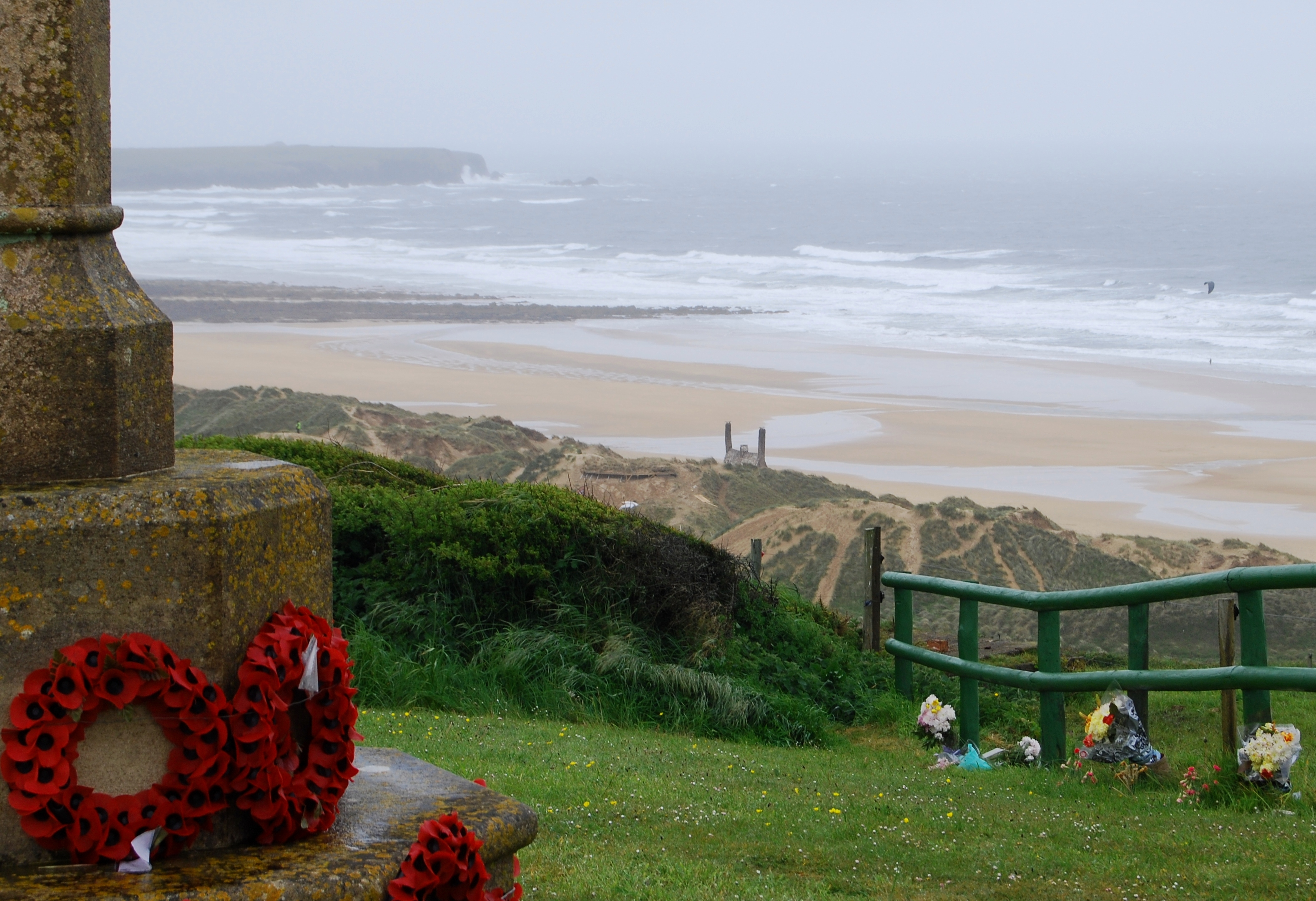 Freshwaterwest Beach from the war memorial at the north end of the beach. The house in the middle distance is the "Shell Cottage" temporarily constructed for the filming of the Harry Potter film " The Deathly Hallows".